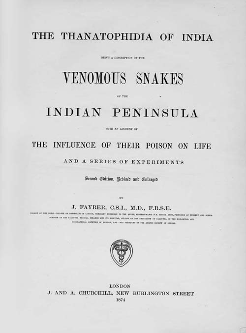 Thanatophidia of India by Joseph Fayrer